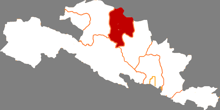 Location of Linze County in Zhangye city, China